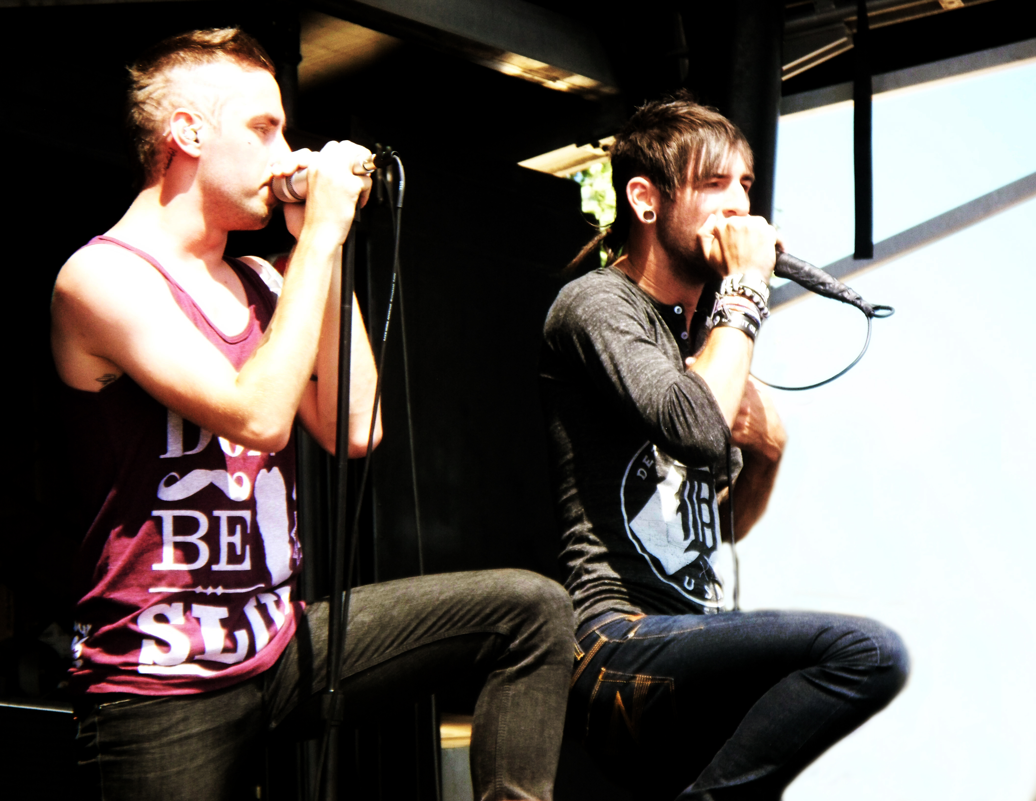 Woe, Is Me singers Michael Bohn (right) and Derek Tyler Carter (left) performing live the United States Warped Tour in 2011.